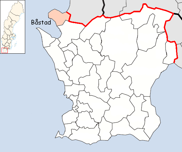 Båstad Municipality in Scania, Sweden Designed by me. Mere outlines are a PD source from